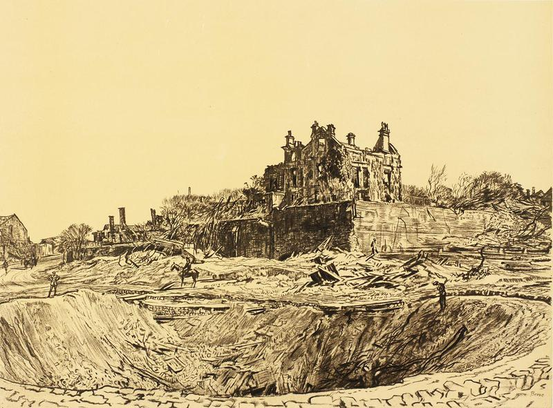 War Drawings by Muirhead Bone- the Great Crater, Athies